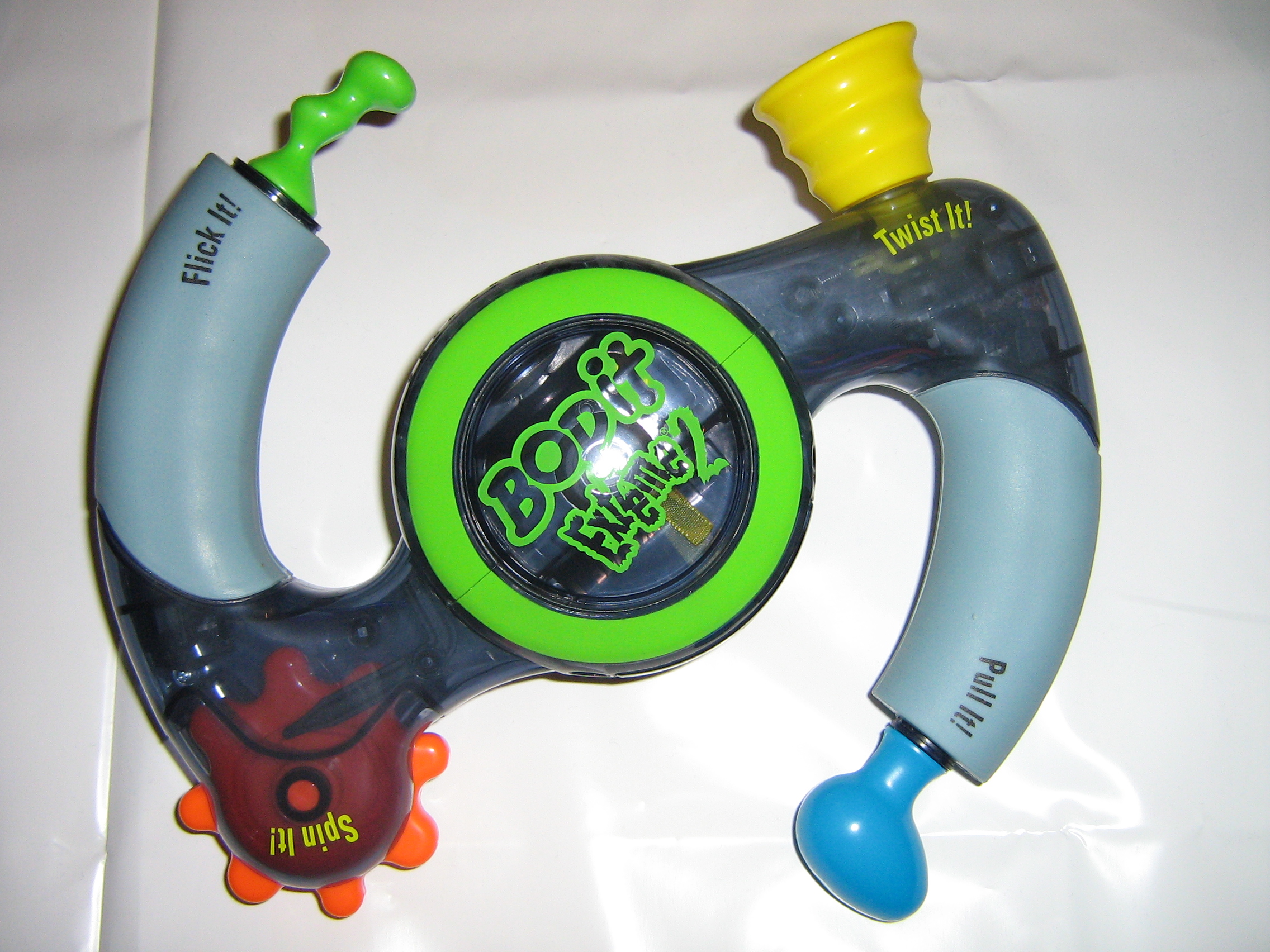 Bop-It Extreme 2 Green Side